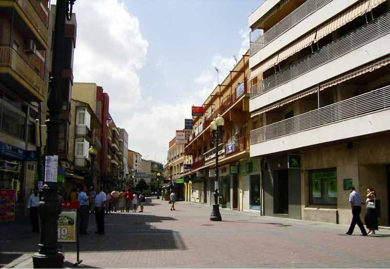 Madrid street, Getafe, (Madrid), Spain Author: Miguel303xm Date: June 22nd, 2005 Place: Madrid street, Getafe, Madrid, Spain